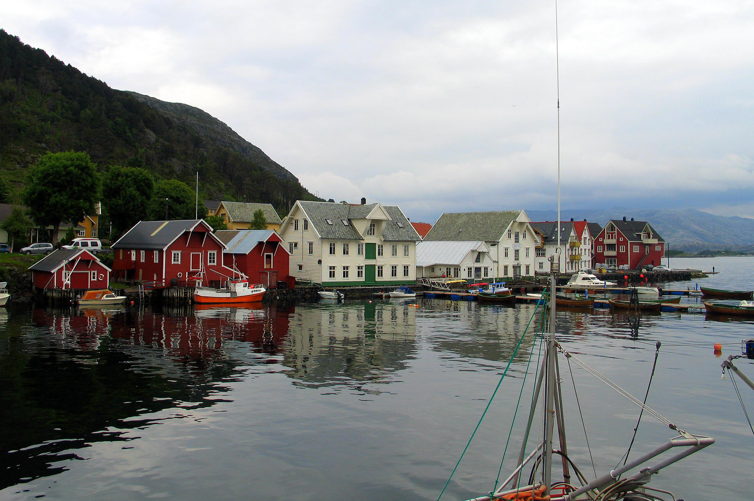 Inner harbor of Kalvåg, Norway